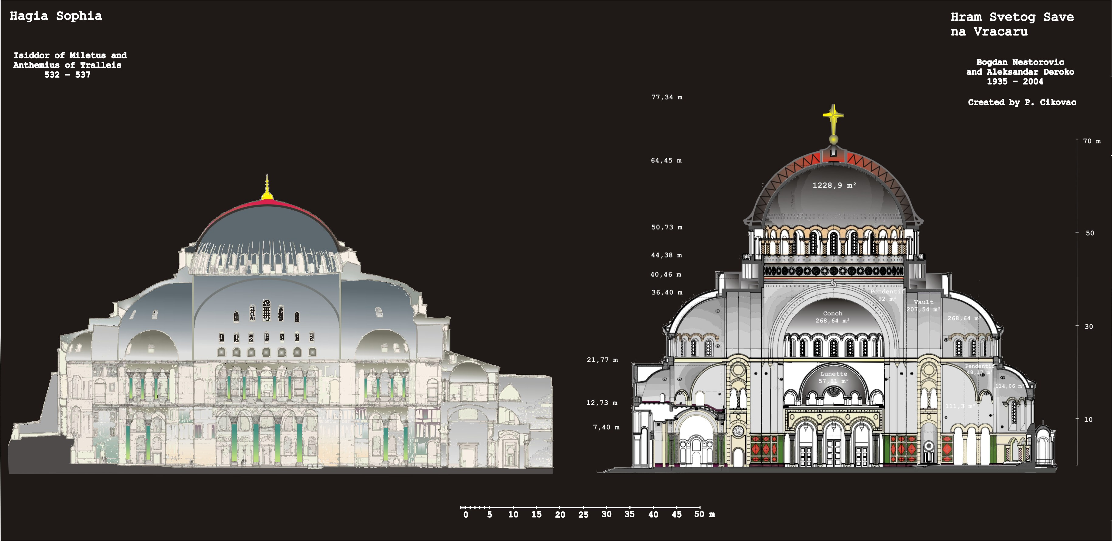 Hagia Sophia and Temple of St Sava